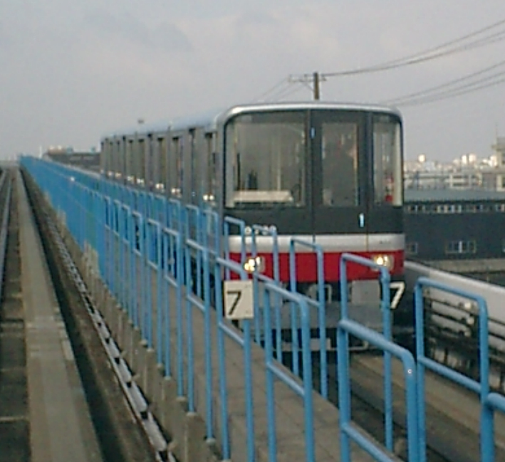 New-Tram at Osaka City note It takes pictures in the New-Tram railway line.